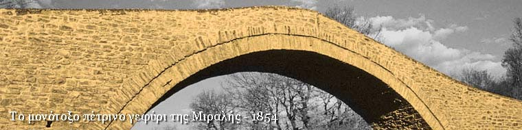 The stone bridge of Chrysaygi